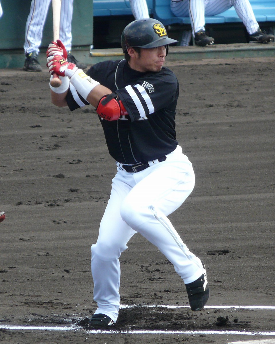 Kenta Nakanishi